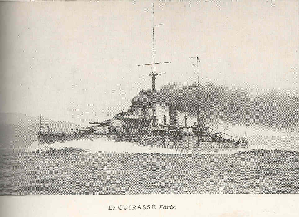 Subject: Faris (Battleship), Battleships Tag: Vessels